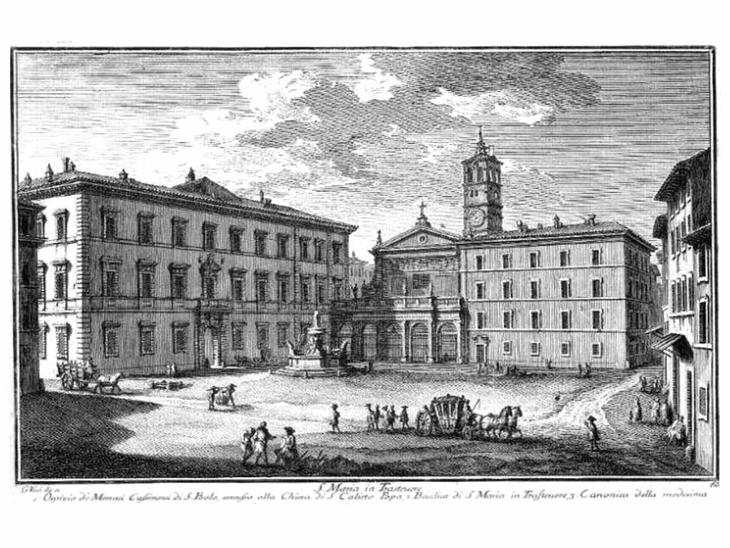 PLATE 60: 1) Palazzo S. Callisto; 2) S. Maria in Trastevere; 3) Deanery of the church.